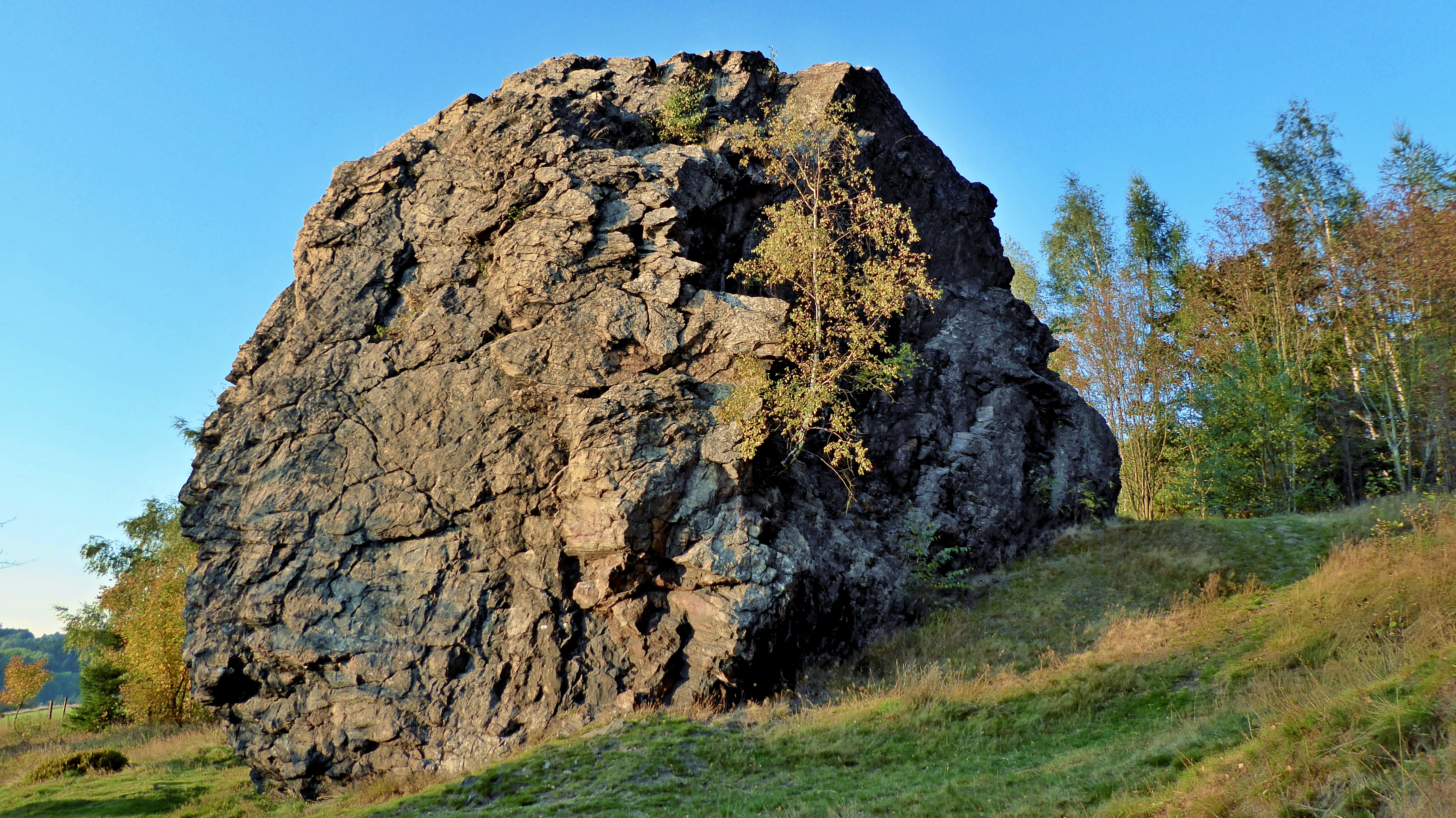 "Vávrova" rock is the name of a geomorphological structure with a peak about 750.5 m above sea level in of "Pohledeckoskalská" Highlands, it lies in the cadastral area of the village of Pohledec (part of New Town in Moravia) in the district "Žďár nad Sázavou" belonging to the "Vysočina" Region in the Czech Republic. The rock formation is a significant height point, part of the natural monument "On the Rock" in the Protected Landscape Area "Žďárské" Hills. Photo-location: Czechia, "Vysočina" Region, village "Pohledec" (part of New Town in Moravia), "Pohledeckoskalská" Highlands".